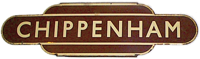 British Railways Western Region station totem for Chippenham.jpg